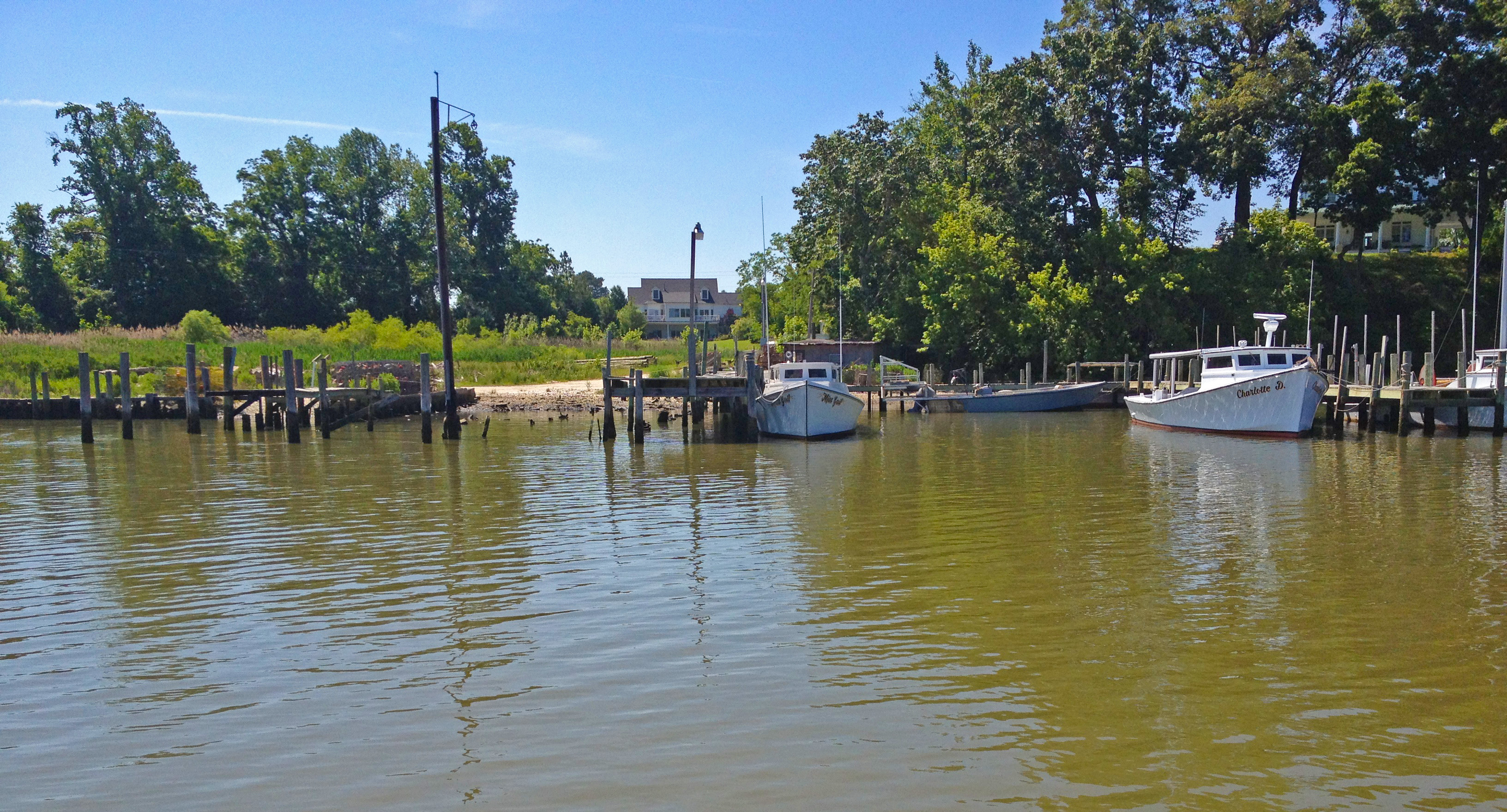 Rappahannock River in Waterview on Parrott's Creek